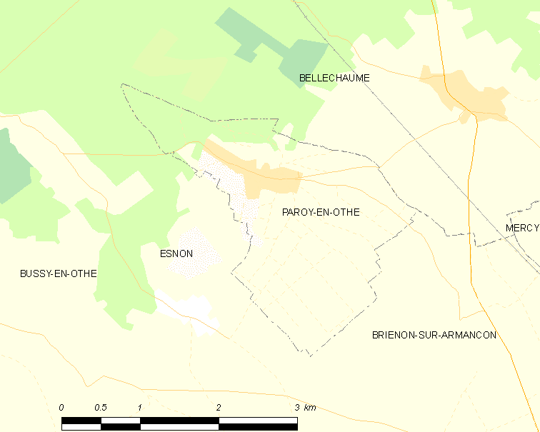 Map of French municipality Paroy-en-Othe